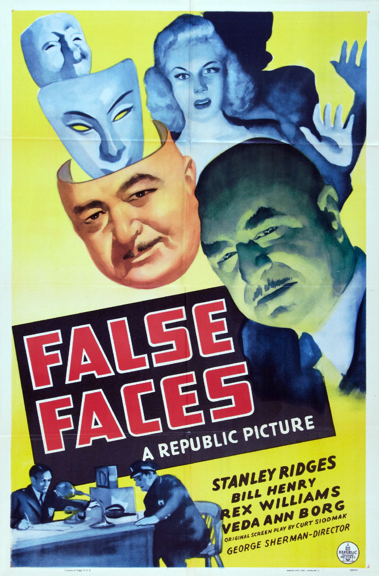 Poster for the 1943 film False Faces. There are no copyright marks. At bottom is Country of origin uSA, Morgan Litho Corp. Cleveland, O. and 24310.